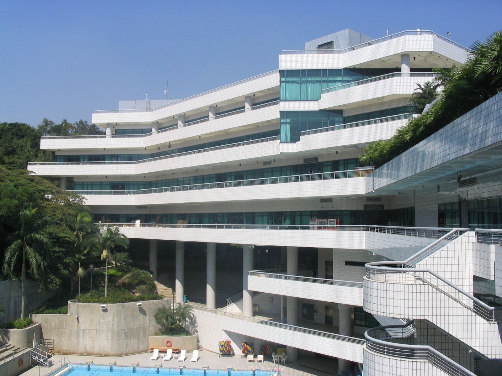 香港城市大學-康樂樓 Amenities Building, City University of Hong Kong